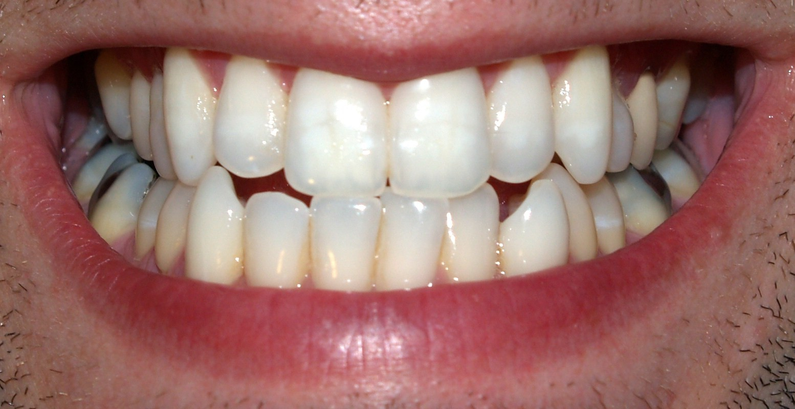 Teeth of a model.